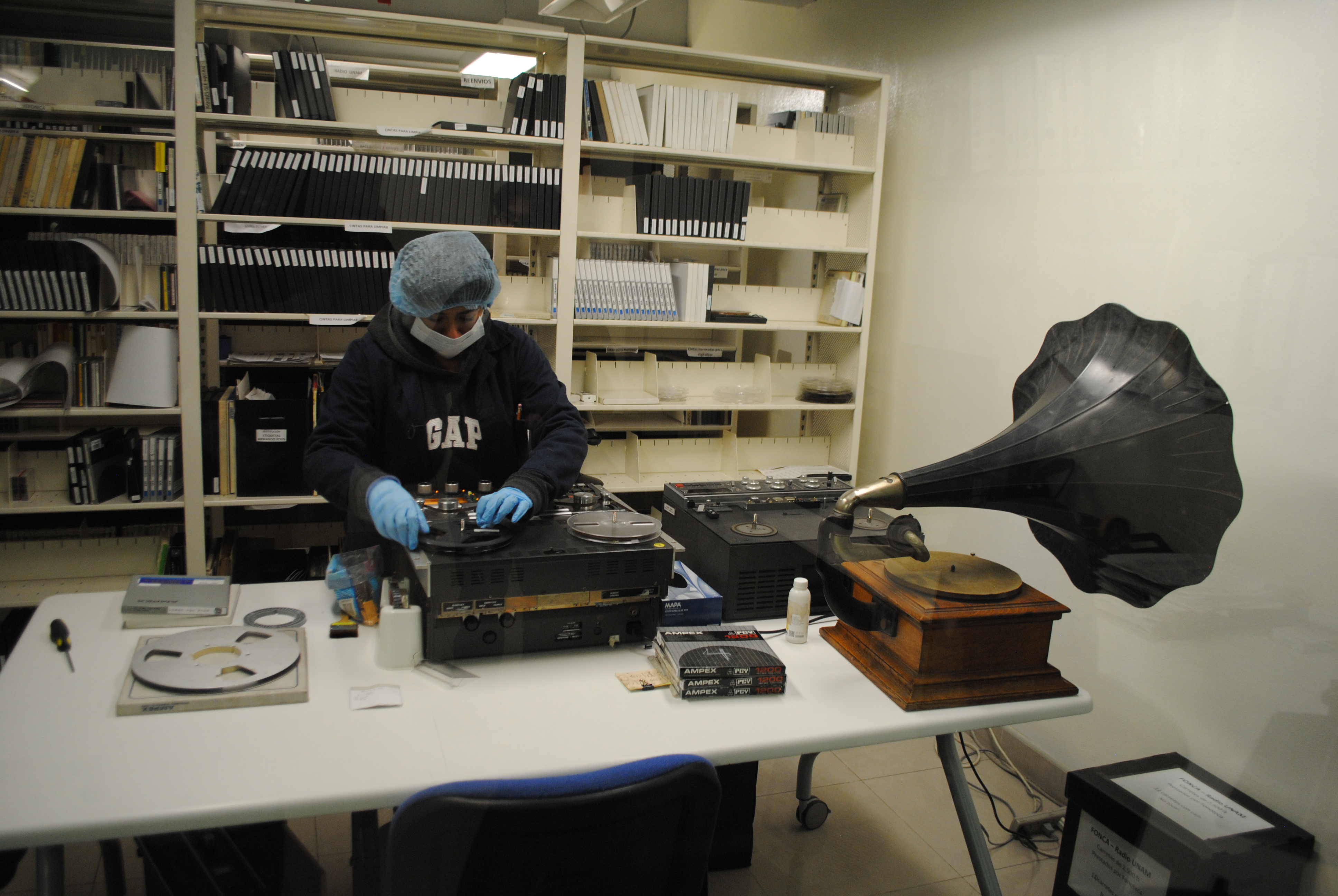 Facilities of the Fonoteca Nacional de México (National Sound Archive of Mexico), in a special type backstage tour for Wikimedia México community.